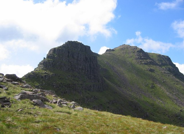 Beinn Dearg summit. Seen from the east.. The tricky scrambling section can clearly be seen on the left. This would be a notorious obstacle, except for that Beinn Dearg is still a very quiet hill in a busy and popular area.